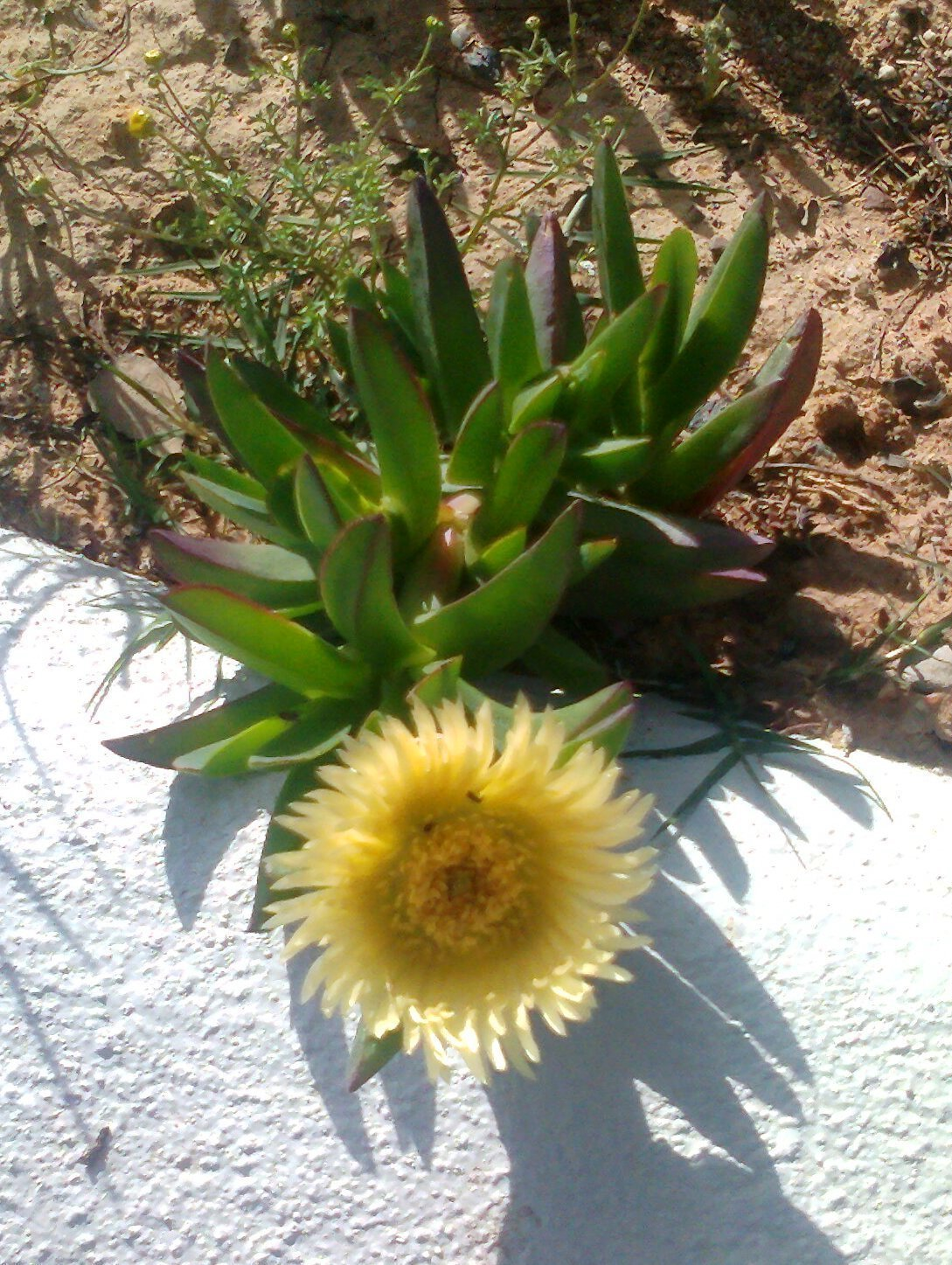 Carpobrotus edulis